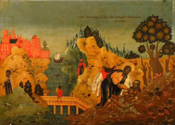 Good Samaritan (russian icon)